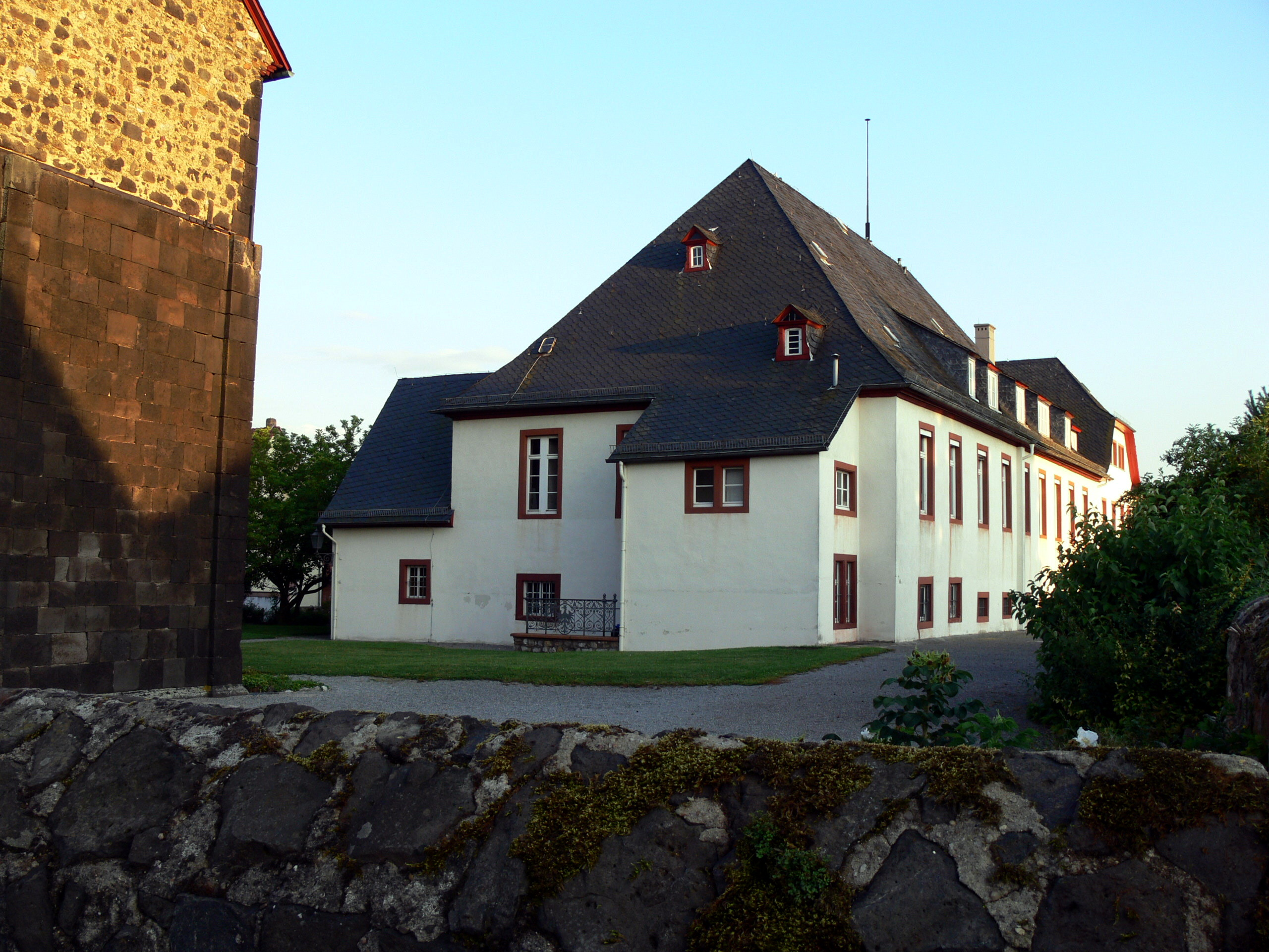 Hospital of the Order of St. John in Butzbach-Nieder-Weisel, today House of the Hessian Order